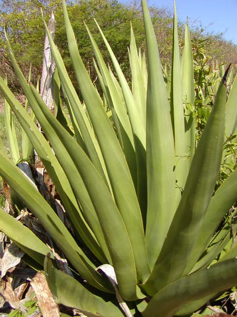 Agave eggersiana US Virgin Islands Photo by USFWS